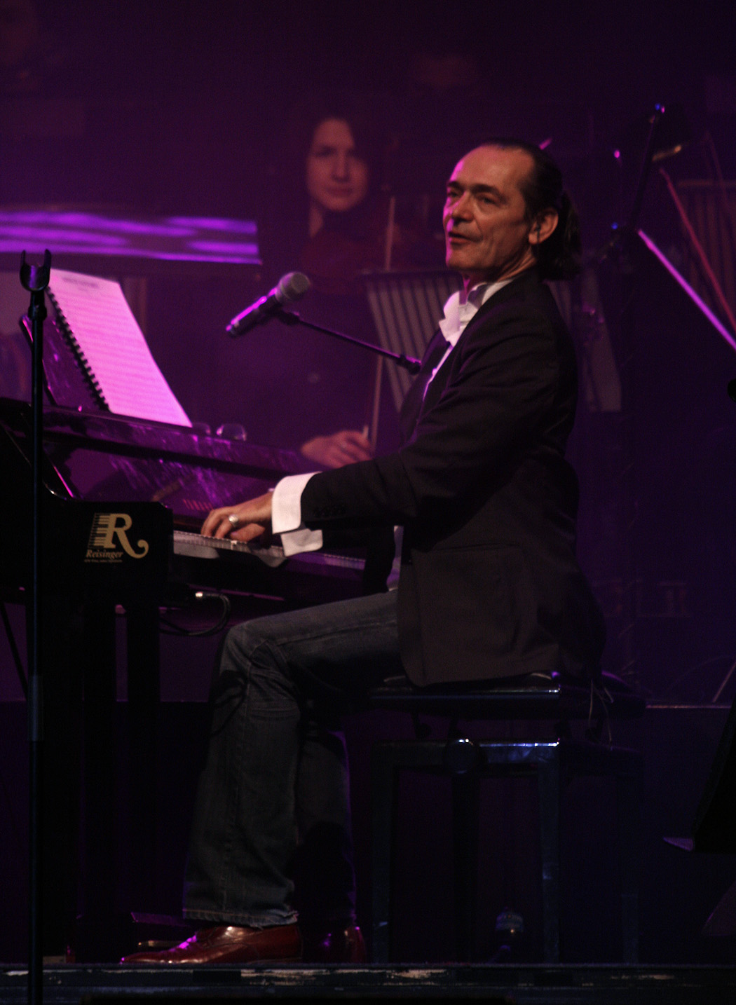 Christian Kolonovits; charity concert 'atemberaubend 08' in support of researching pulmonary hypertension (lungenhochdruck.at) at the Wiener Stadthalle.